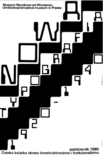 Bogusław Balicki, plakat do wystawy Nowa Typografia 1920-1940. Czeska książka okresu konstruktywizmu i funkcjonalizmu, 1980